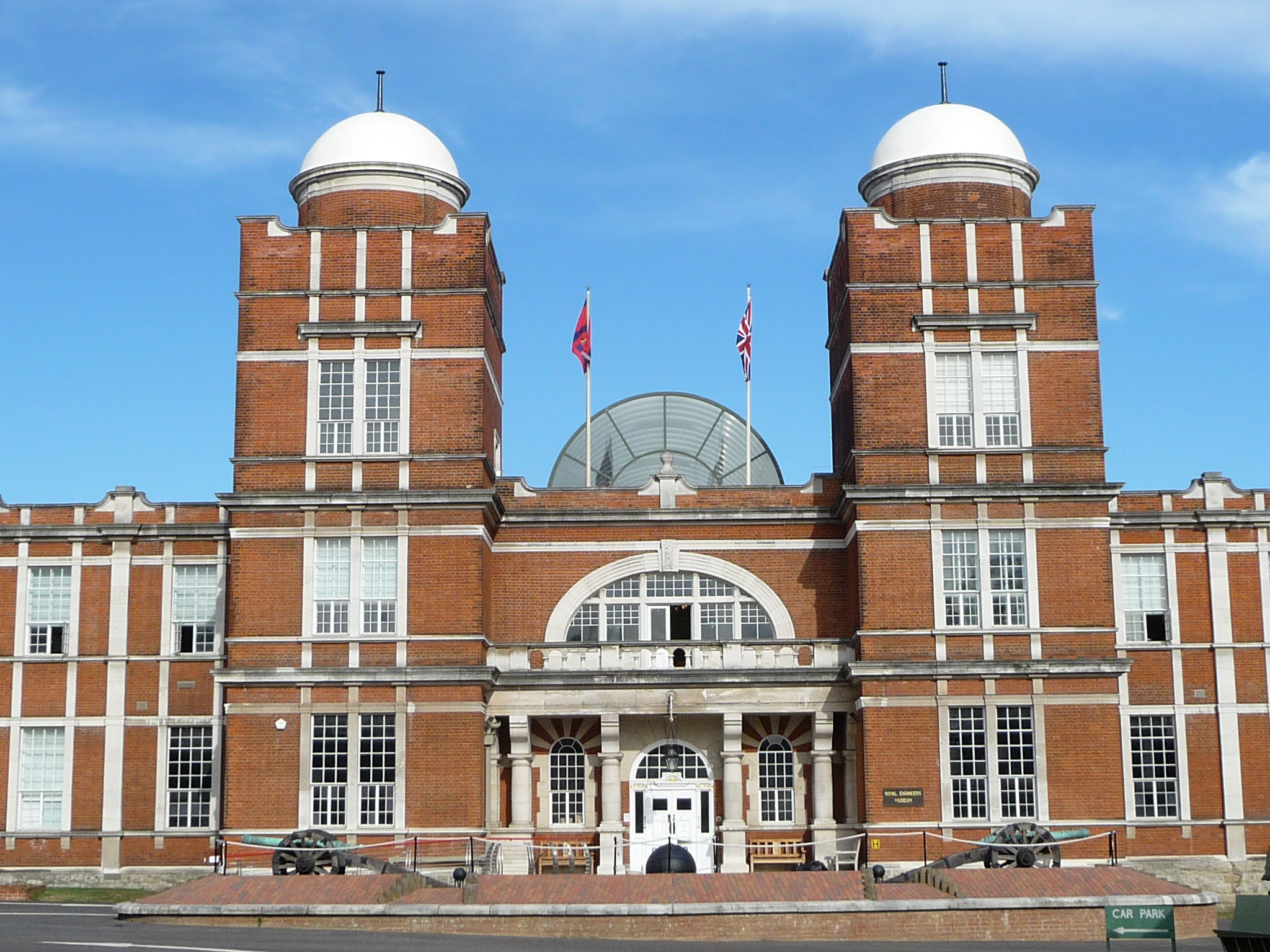 The Royal Engineers Museum, Library and Archive is a military engineering museum and library in Gillingham, Kent. It tells the story of the Corps of Royal Engineers and British military engineering in general.